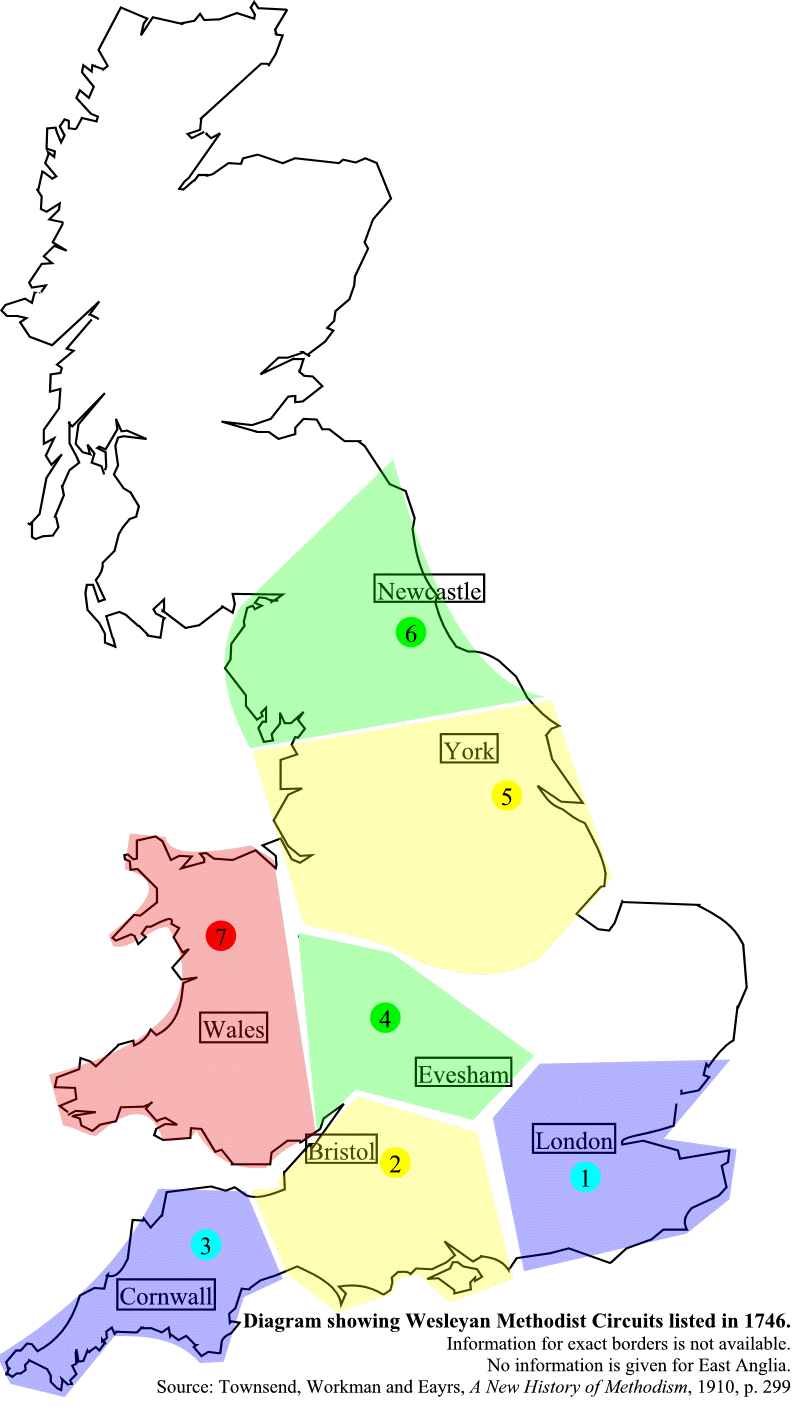 Diagrammatic illustration of the Wesleyan Methodist Circuits listed in 1746, to show area covered. Information for East Anglia, and exact borders, is not to hand at time of drawing.